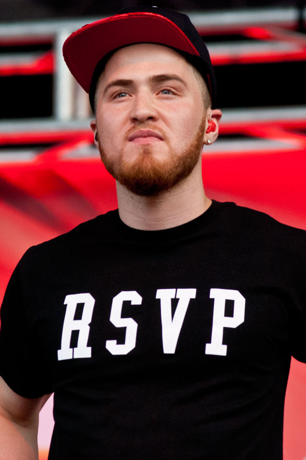 Mike Posner performs at B96 Summerbash on June 16, 2012. Toyota Park, Bridgeview, IL, USA. Photo by Adam Bielawski